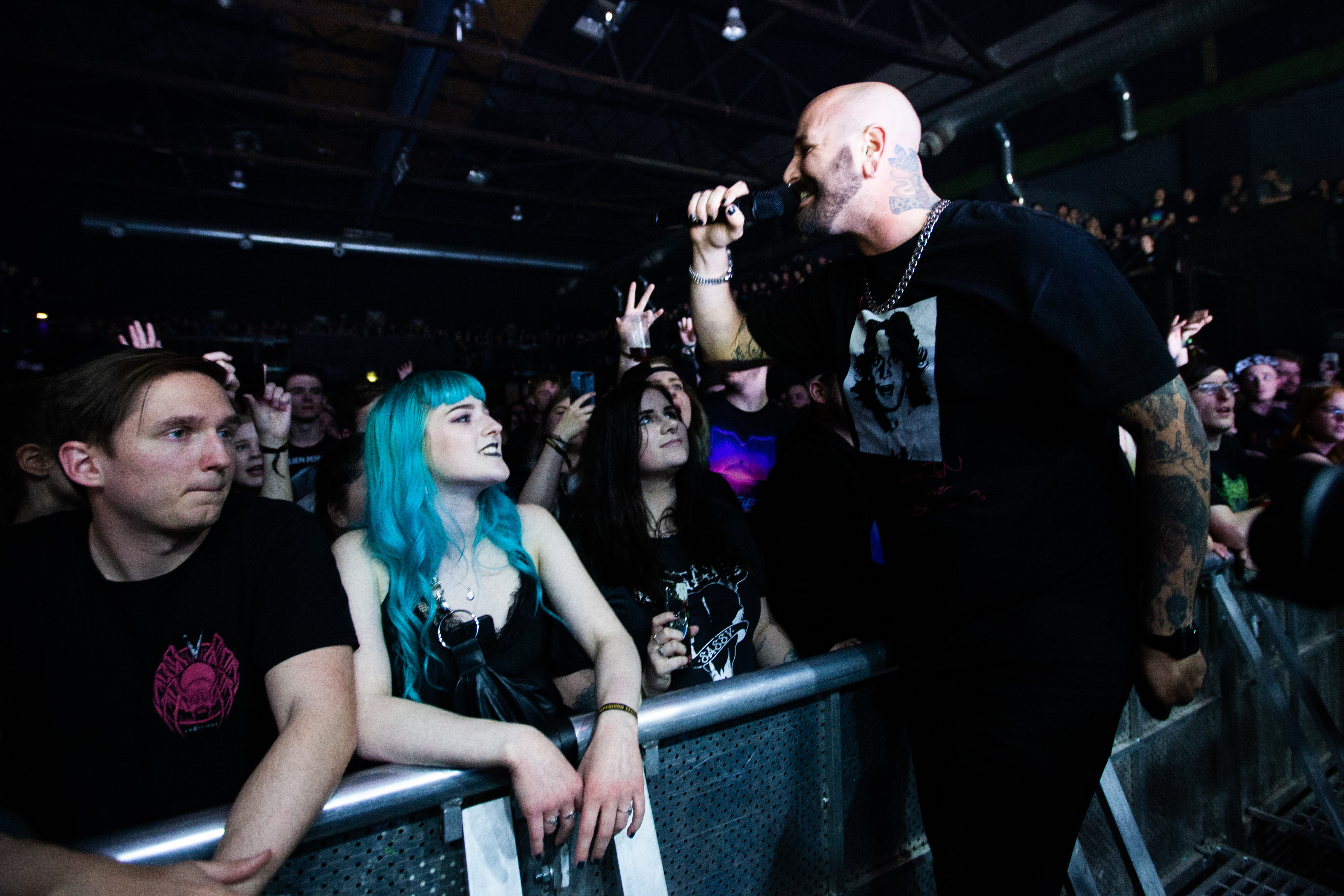 Joel Quartuccio (Vocals/Shouting) and fans of US Post hardcore group Being as an Ocean during a show at Impericon Festival (2019), Turbinenhalle, Oberhausen (DEU) /// leokreissig.de for Wikimedia Commons